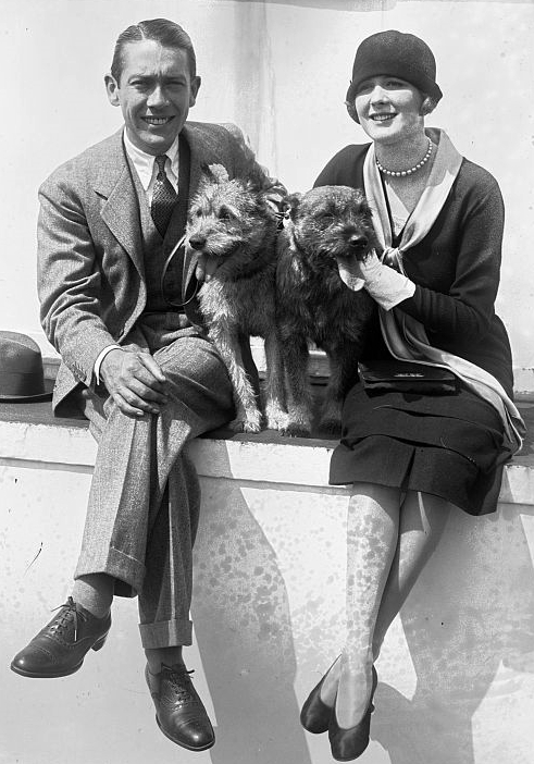 American actors Jack Pickford (1896-1933) and Marilyn Miller (1898-1936)